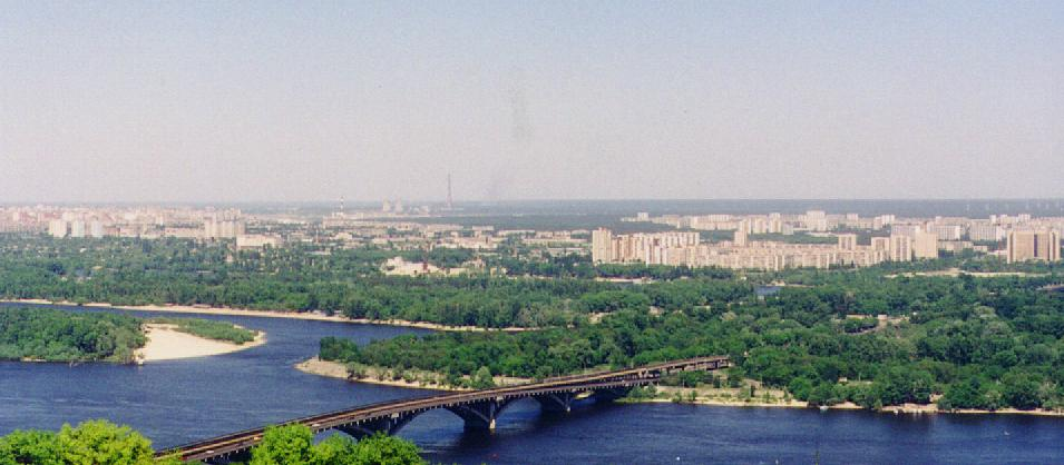 View of Dnipro River from Pechersk, looking east over the Metro bridge towards Hidropark and Livoberezhna.